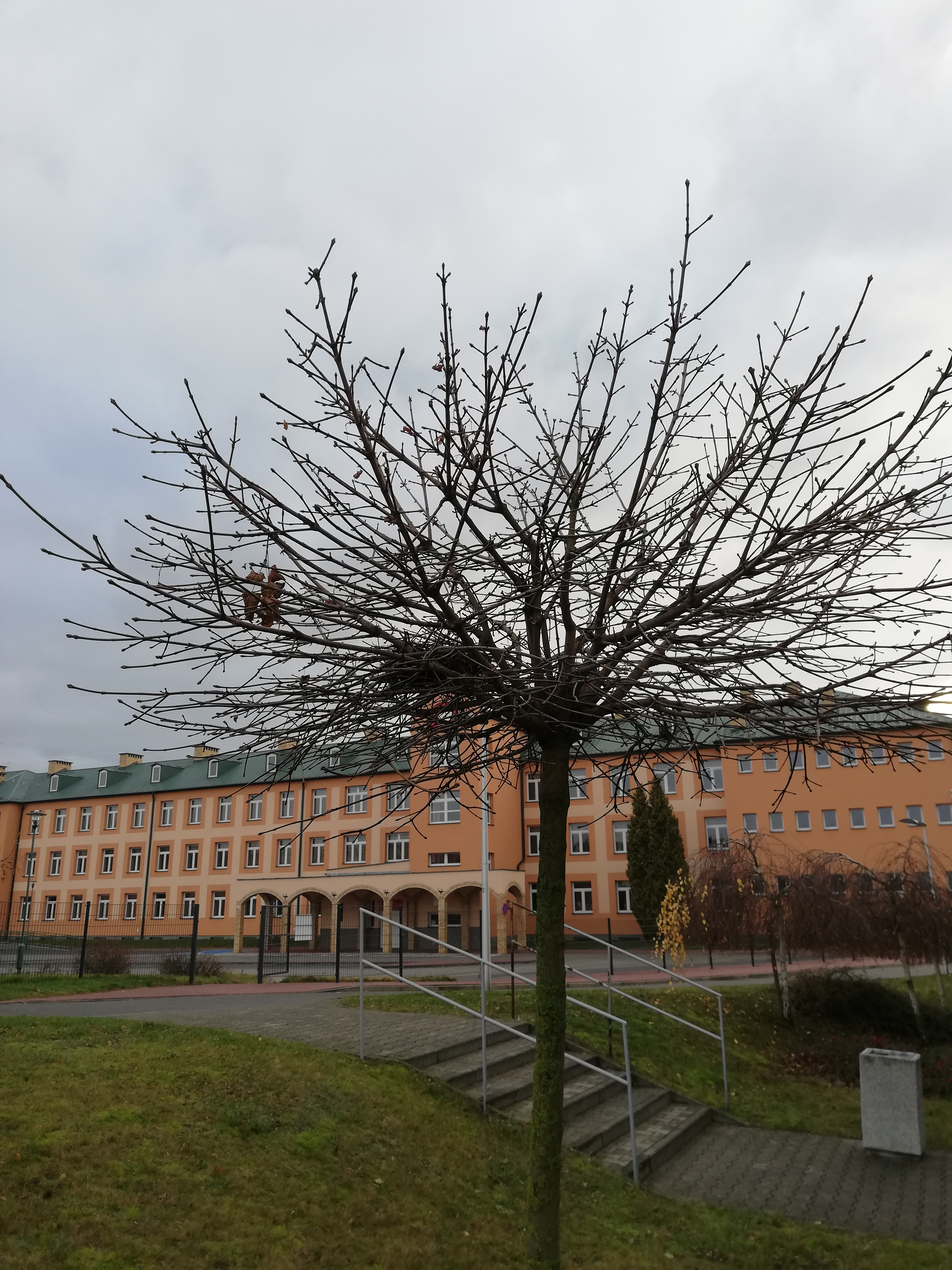 Building of Primary School nr 5 in Zambrów